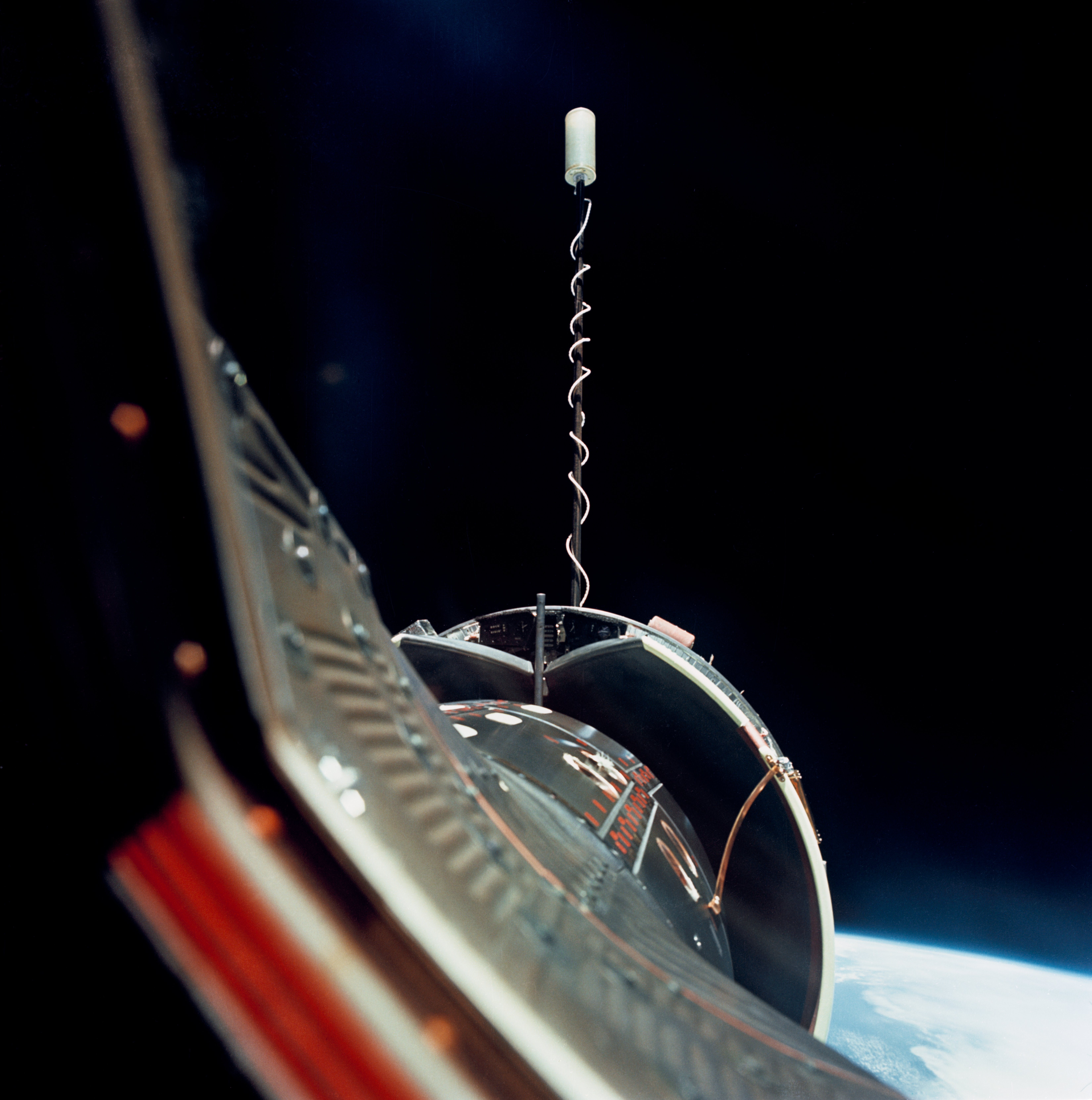 S66-46144 - The Gemini 10 spacecraft is successfully docked with Agena Target Docking Vehicle 5005. The Agena display panel is clearly visible. After docking with the Agena, Astronauts John Young and Michael Collins fired the 16,000 lb. thrust engine of Agena 10's primary propulsion system to boost the combined vehicles into an orbit with an apogee of 413 nautical miles to set a new altitude record for manned spaceflight.